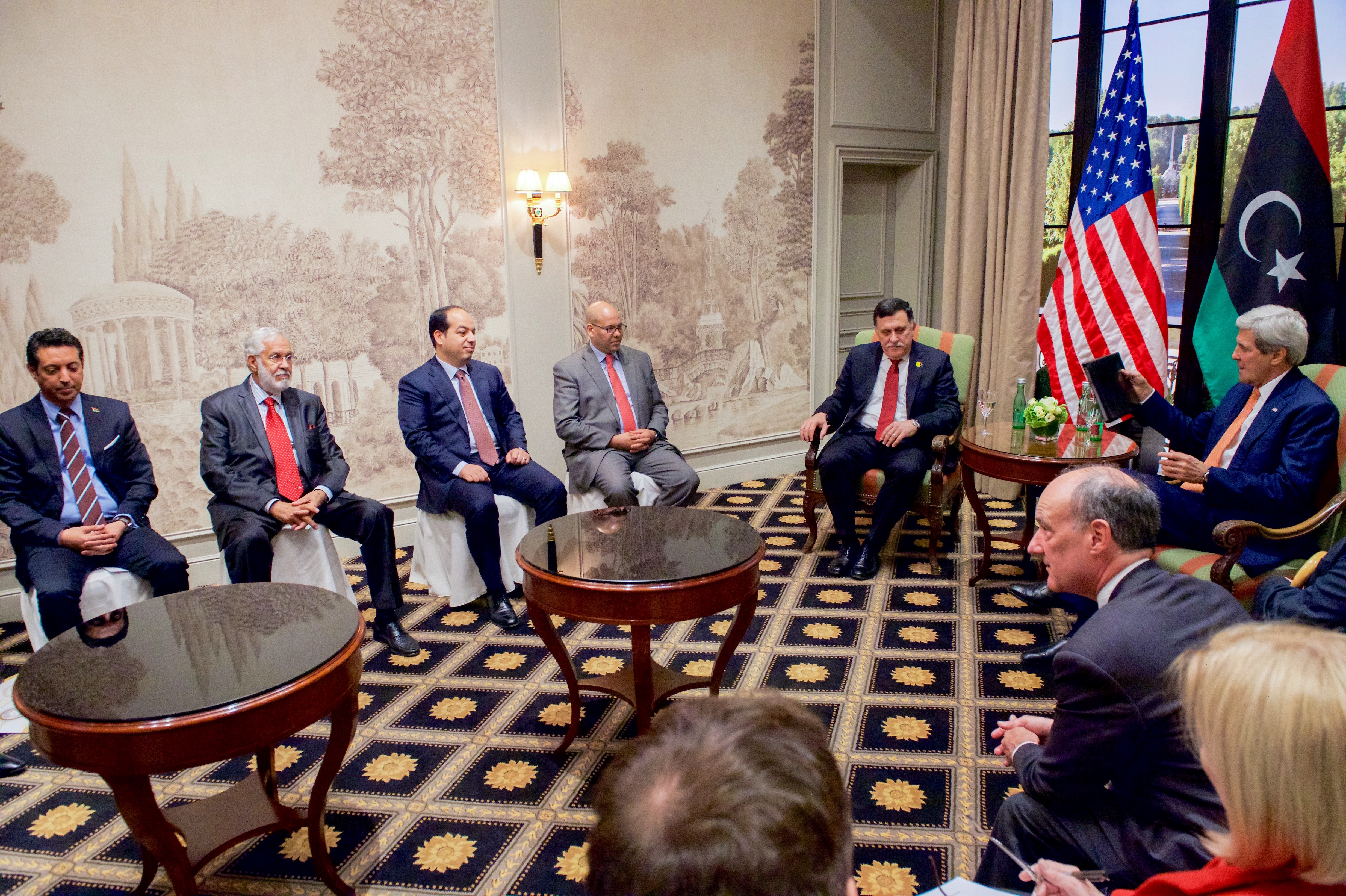 U.S. Secretary of State John Kerry sits with Libyan Prime Minister Fayez al-Sarraj and his advisers at the Bristol Hotel in Vienna, Austria, on May 16, 2016, before a series of multilateral meetings in the Austrian capital focused on Libya, Syria, and other regional hotspots. [State Department photo/ Public Domain]